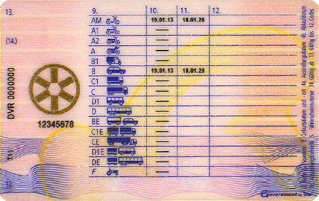 Specimen for the European driving licence used in Austria since 2013, back side